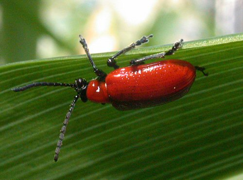 The Scarlet Lily Beetle Lilioceris lilii (Scop.) is native to Europe but is now widely found in North America. Larvae damage cultivated lily and Fritillaria plants.